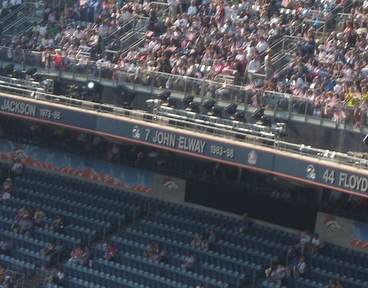 John Elway sur le ring of fame de l'INVESCO Field at Mile High. John Elway on the ring of fame in INVESCO Field at Mile High.